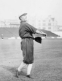 Chicago White Sox pitcher Eddie Cicotte at Hilltop Park in 1912